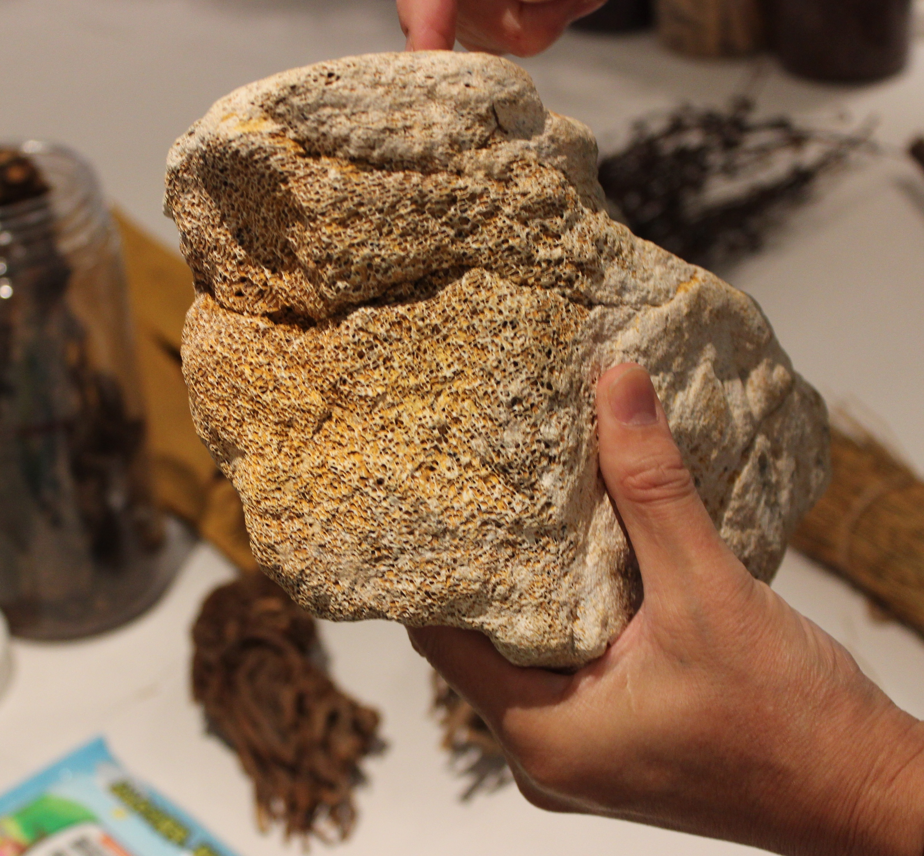 The mammalian fossil used with Chinese medicine ,called ryuukotu